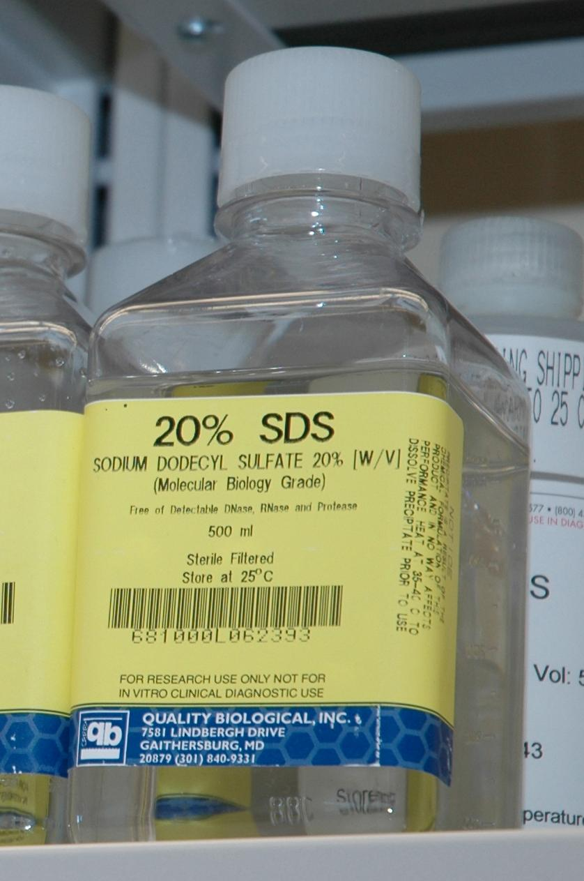 Title: Technology: Lab Description: Bottles in a lab. Subjects (names): Topics/Categories: Technology -- Lab Type: Digital Color Source: National Cancer Institute Author: Diane A. Reid, Photographer Date Created: January 27, 2005 Date Added: 6/1/2005 Reuse Restrictions: None - This image is in the public domain and can be freely reused. Please credit the source and/or author listed above. cropped to show the sodium dodecyl sulfate bottle